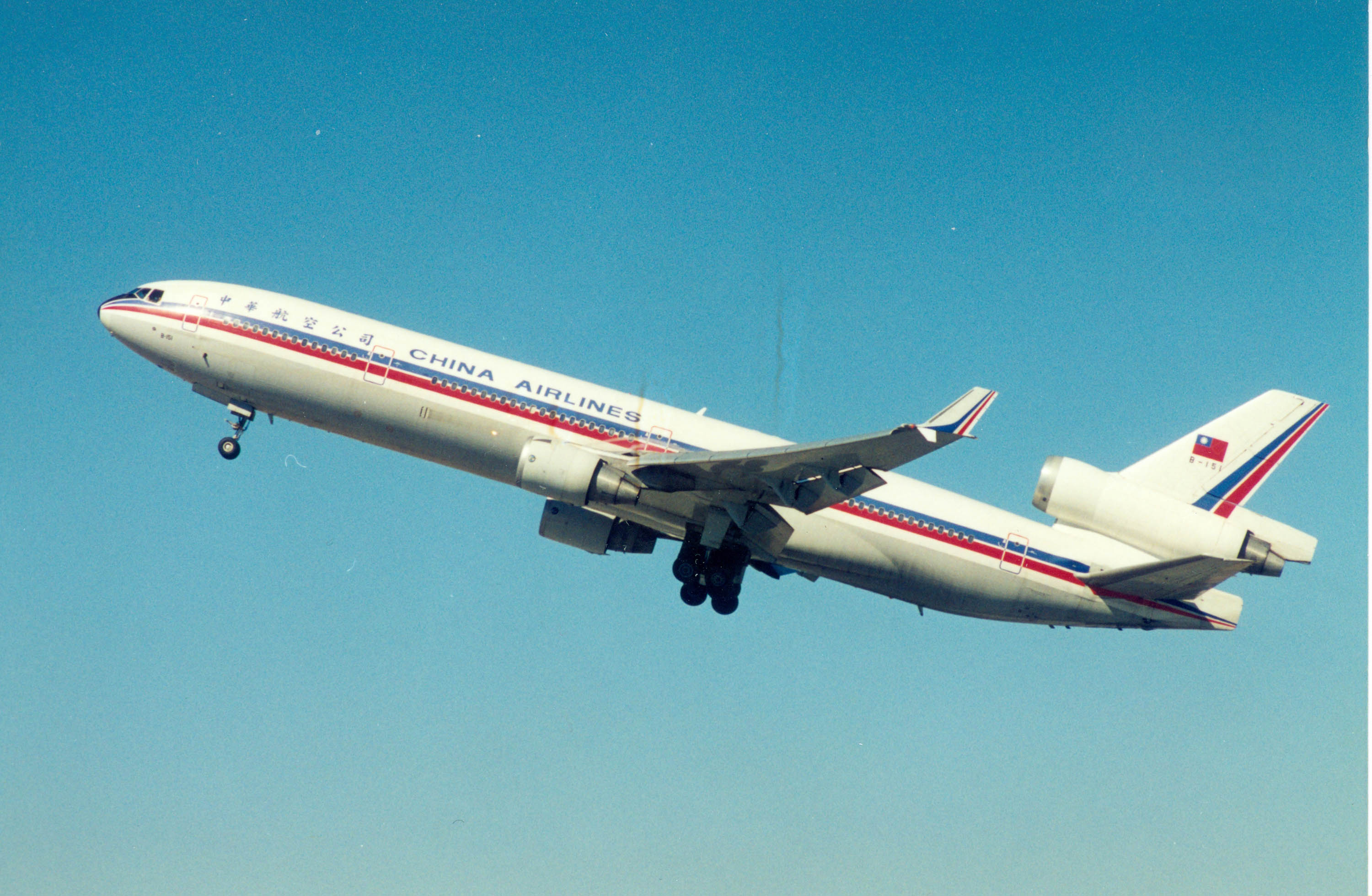 China Airlines MD11 Aug 1995